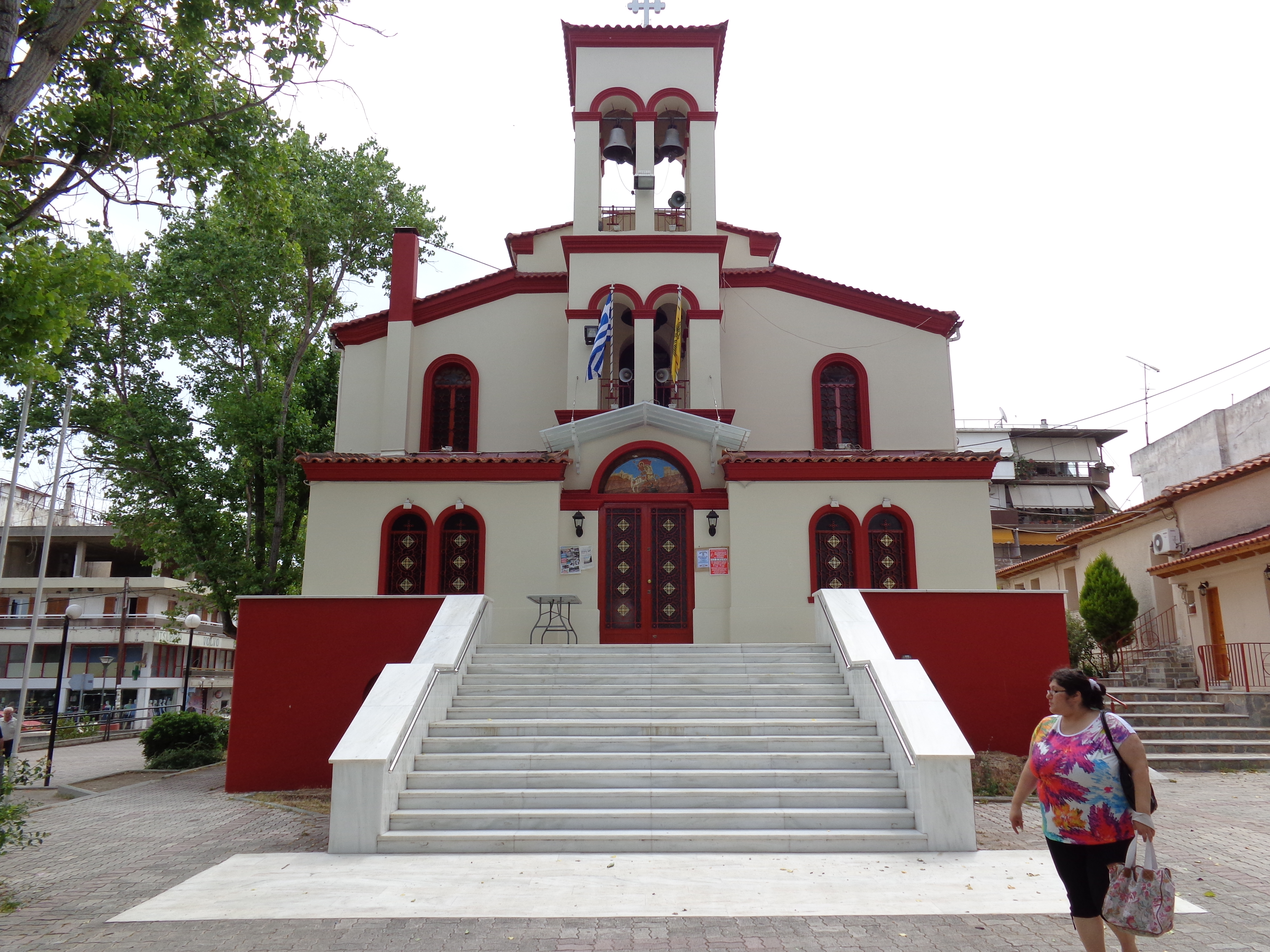 Orthodox Church in Thiva